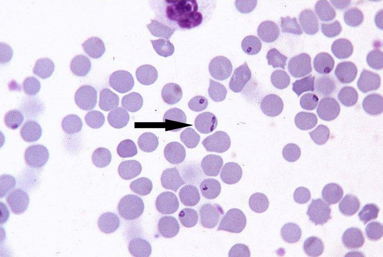 Babesia divergens piroplasm stage infecting red blood cells of a cow. Giemsa stained.